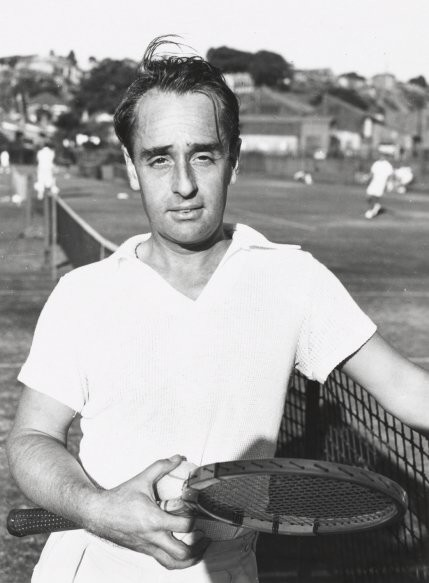 A digital image of the portrait is available from the National Library of Australia (NLA) website. The NLA image contains spurious indexing information along the bottom. This image is a cropped version that eliminates these.